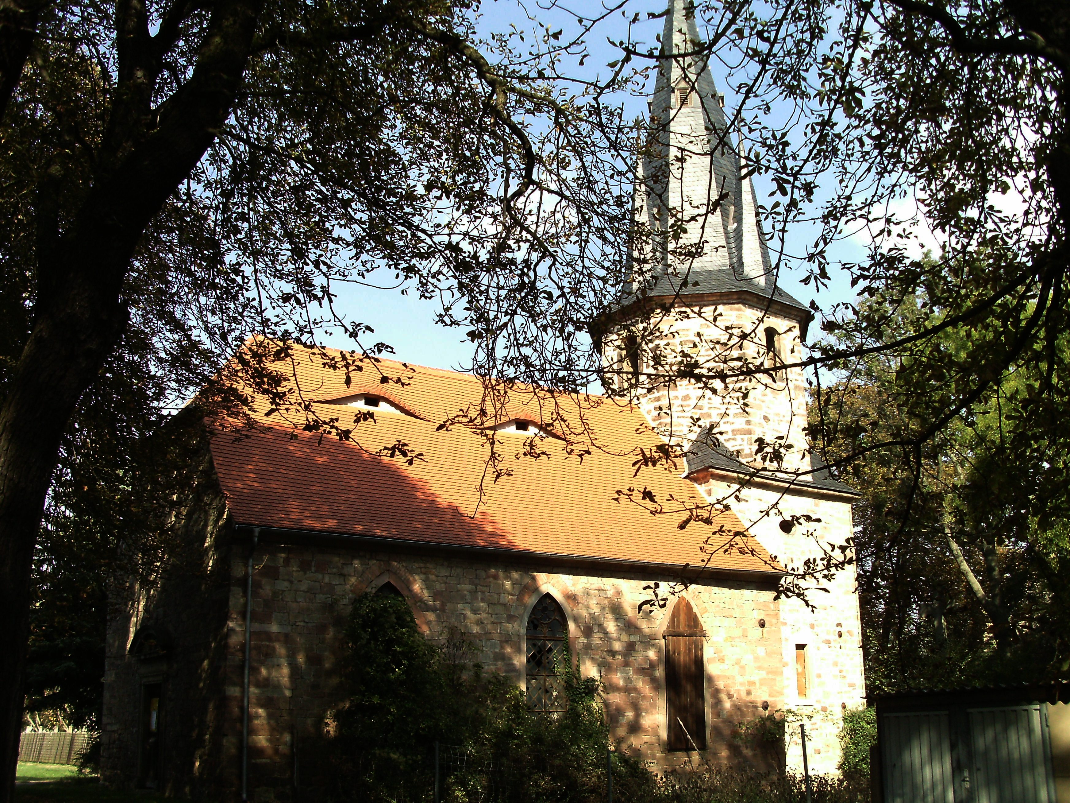 St. Dionysius Church in Vitzenburg (Querfurt, district of Saalekreis, Saxony-Anhalt)